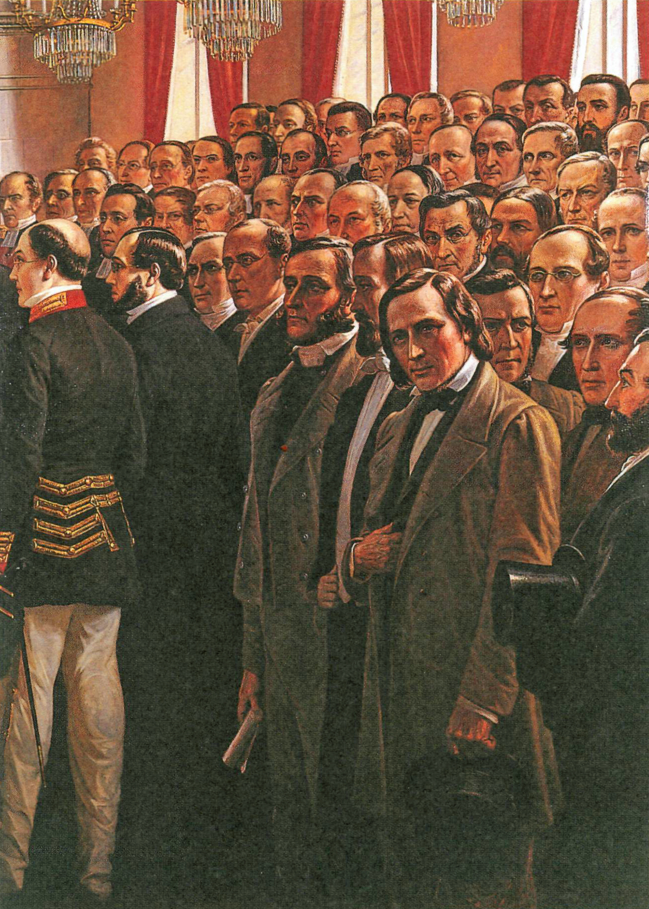 Bourgeois and peasants. Detail of painting by R.W. Ekman. To the right of J.A von Born the chairman of the bourgeois estate Örn, and C.A. Öhrnberg. In the midst of the picture in the first line are the visible figures of the peasant estate: chairman A. Mäkipeska, J.A. Hagelstam, and the progressive E. Klami, behind them C.G. Wolff, A. Puhakka, the secretary of the peasant estate O.J. Ekström, C.J. Slotte, and furthest to the right C.R. Stenroth.